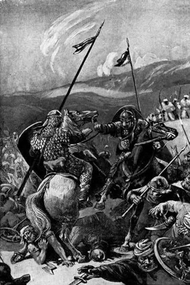 Bohemund of Taranto in the battle